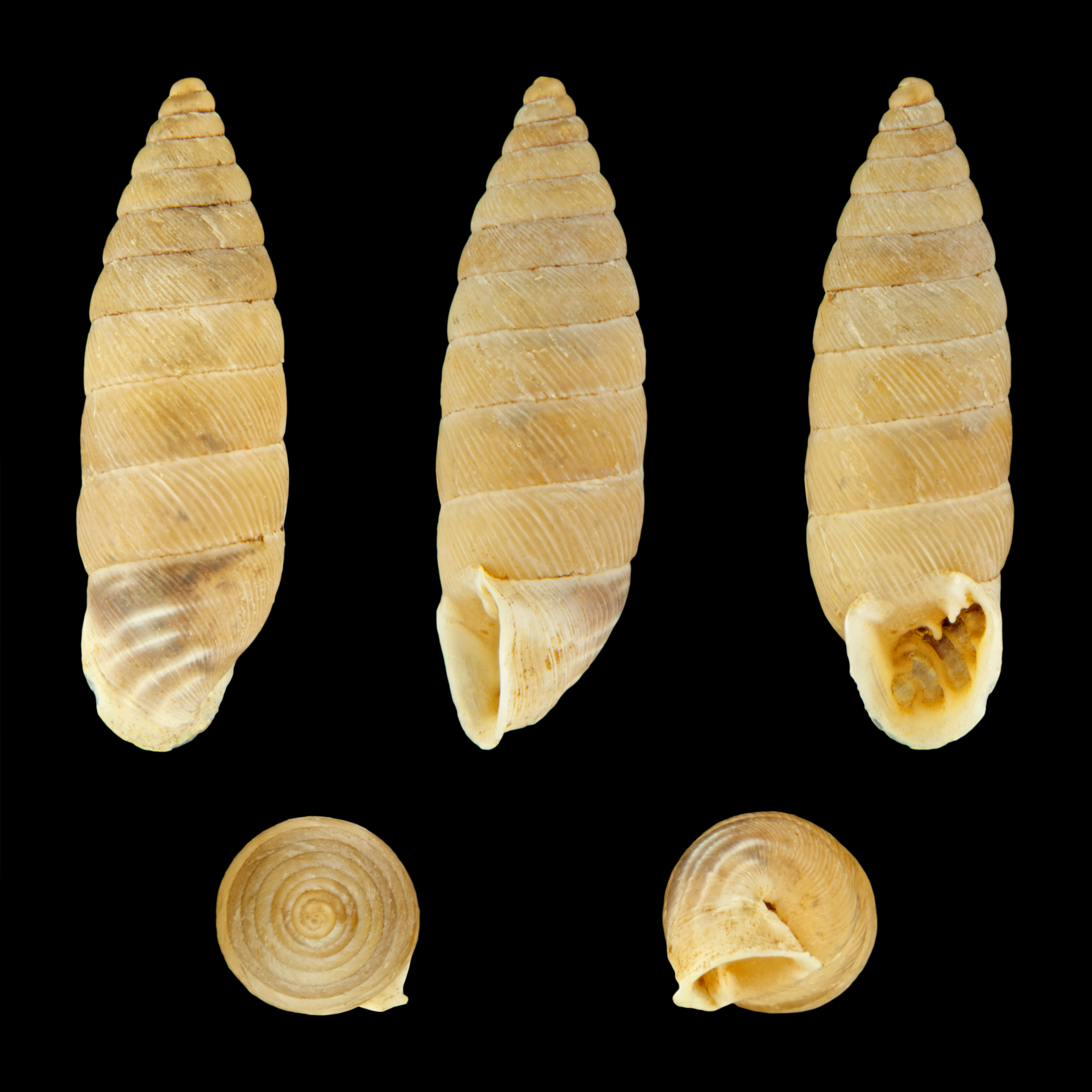 Granaria frumentum (Draparnaud, 1801), large form; length 1.2 cm; Originating from Rovinj, Croatia; Shell of own collection, therefore not geocoded.